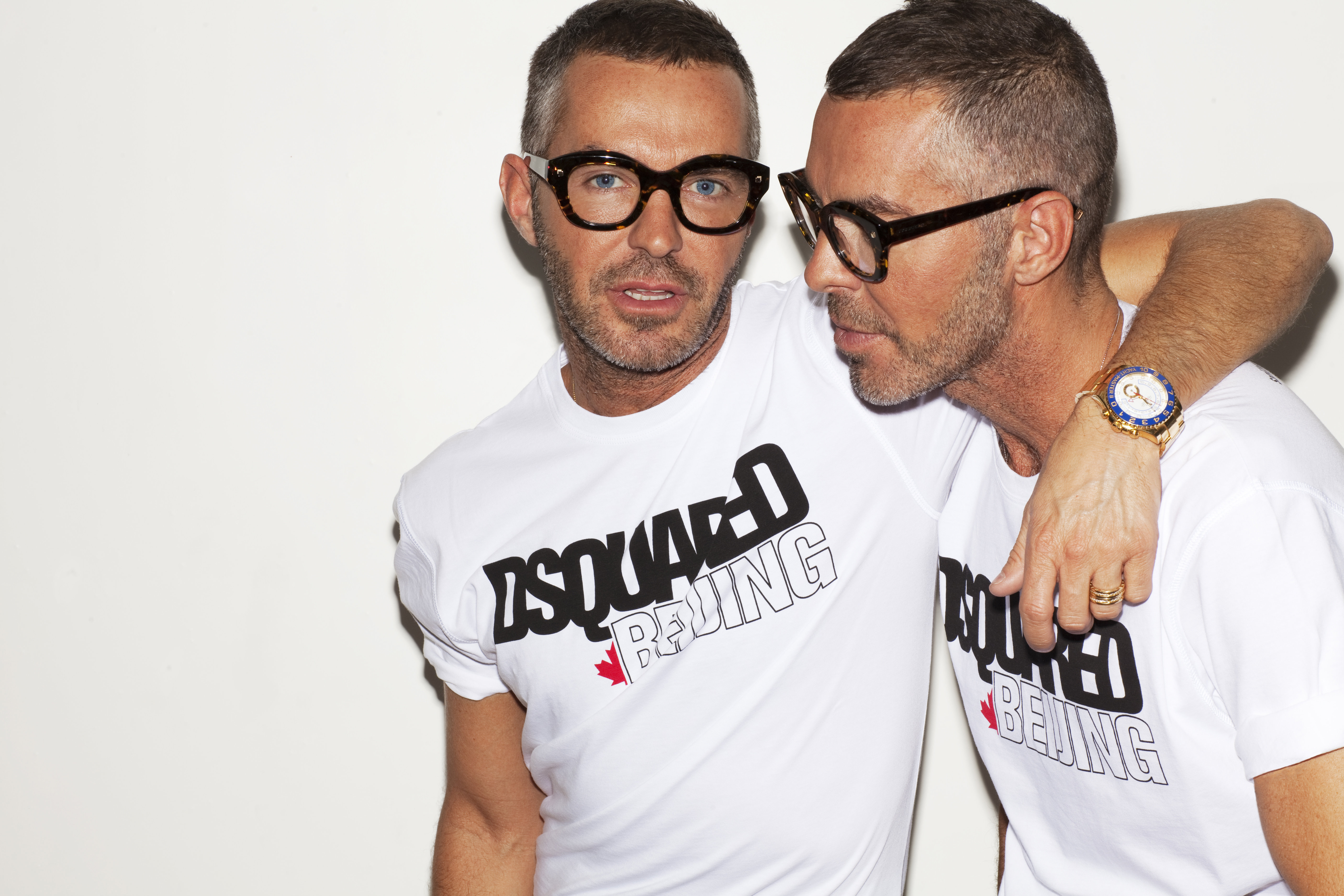 Portret of Dean and Dan Caten